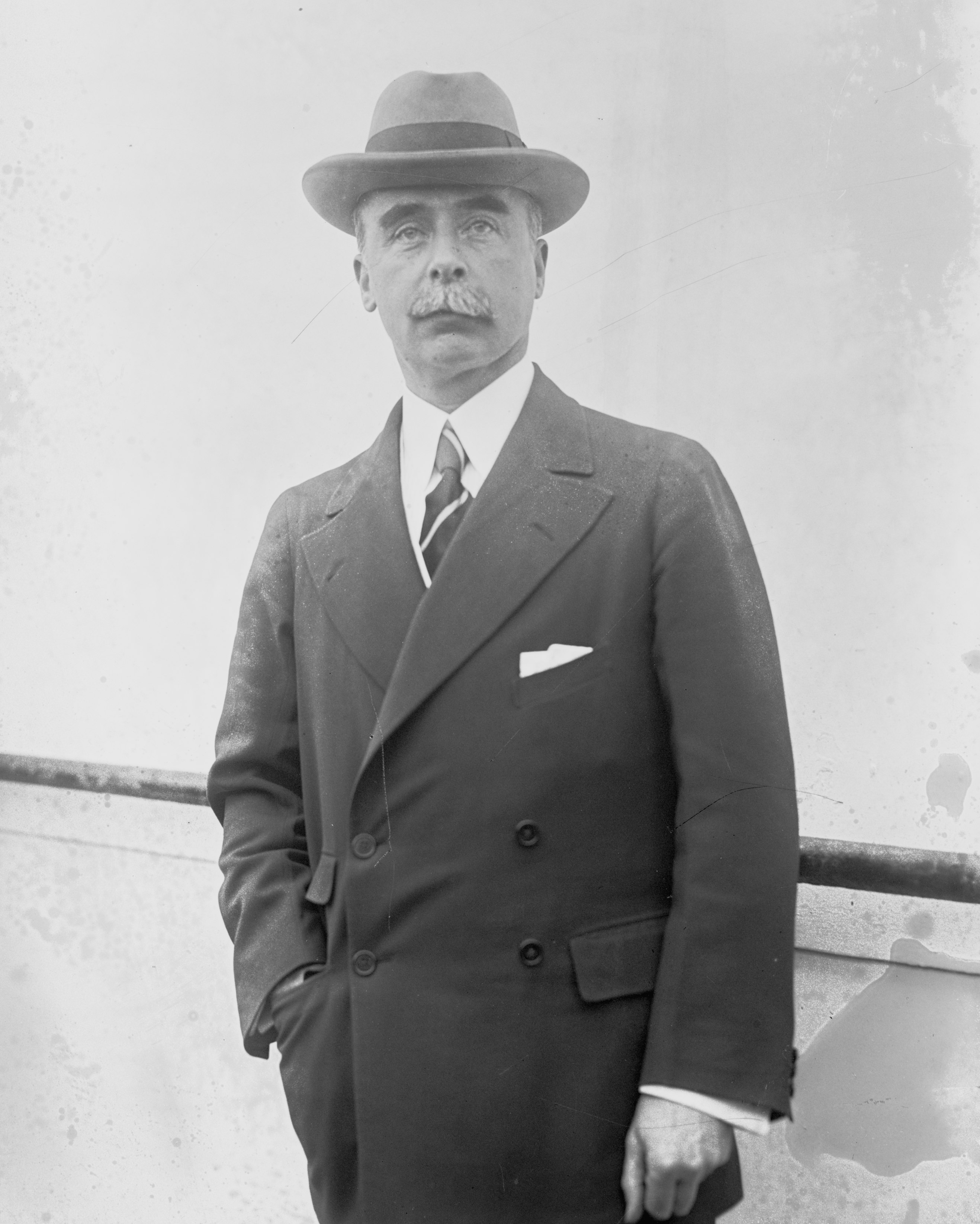 Title: Clarence Mackay Abstract/medium: 1 negative : glass ; 5 x 7 in. or smaller.